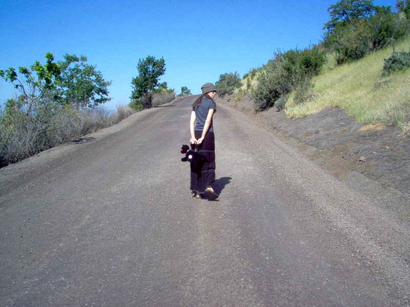 A woman walking up the road in Prescott Park, on the side of Roxy Ann Mountain in Medford, Oregon, USA.